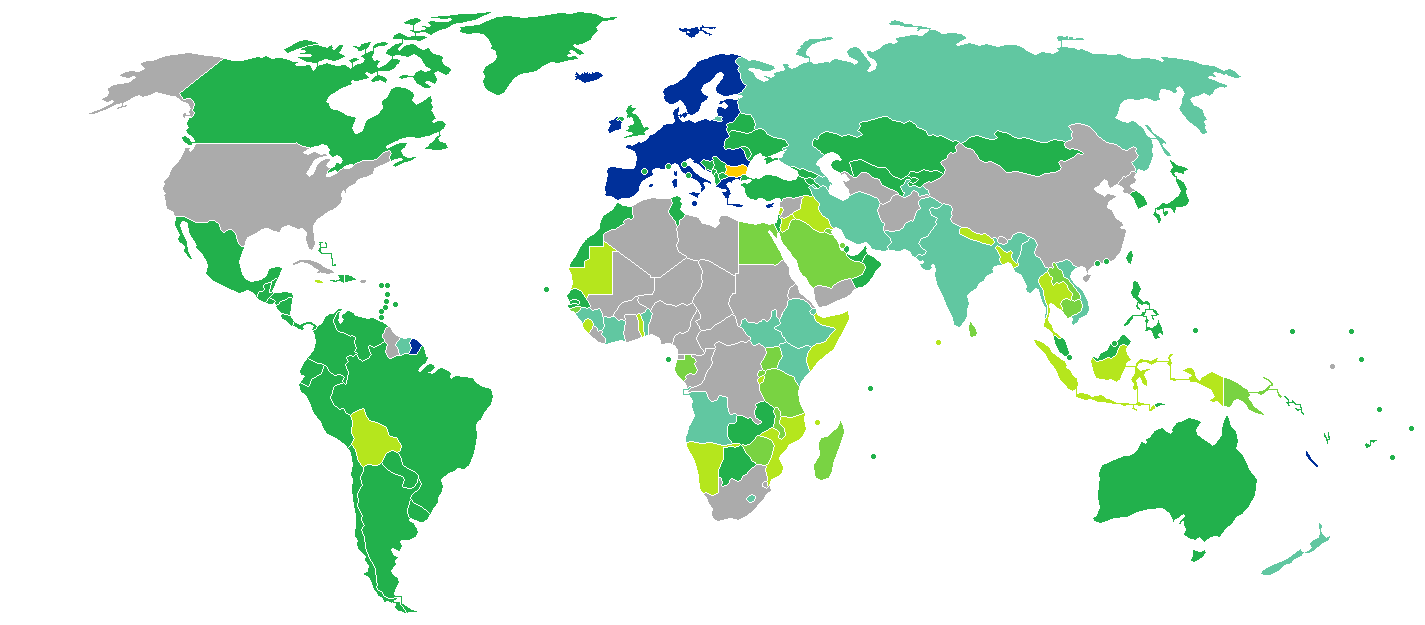 Visa requirements for Bulgarian citizens Bulgaria Freedom of movement Visa not required Visa on arrival eVisa Visa available both on arrival or online Visa required prior to arrival